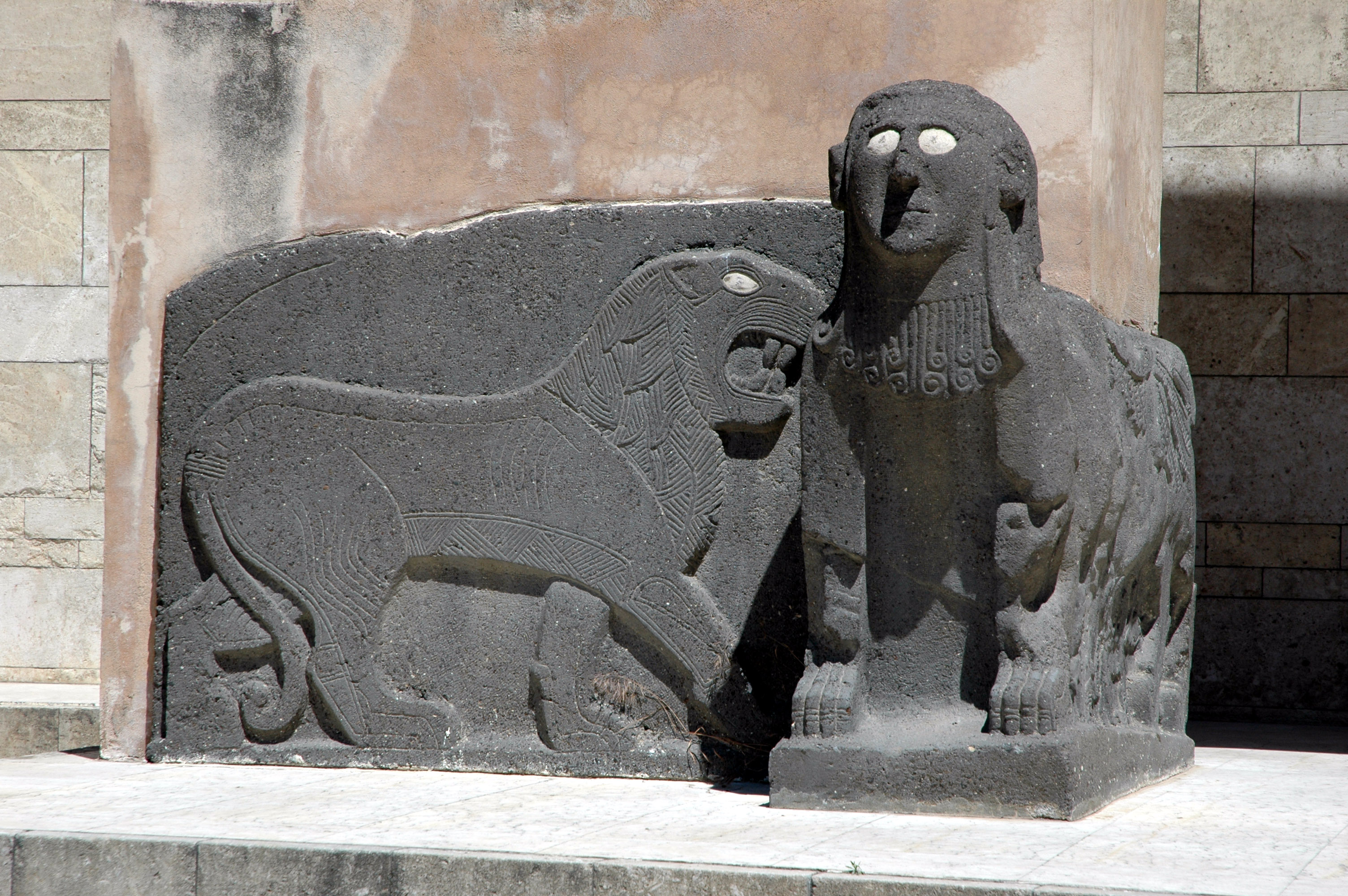 Museum, Aleppo in 2008